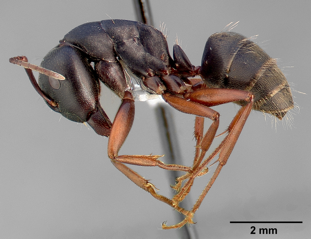 Profile view of ant Camponotus modoc specimen casent0005347.